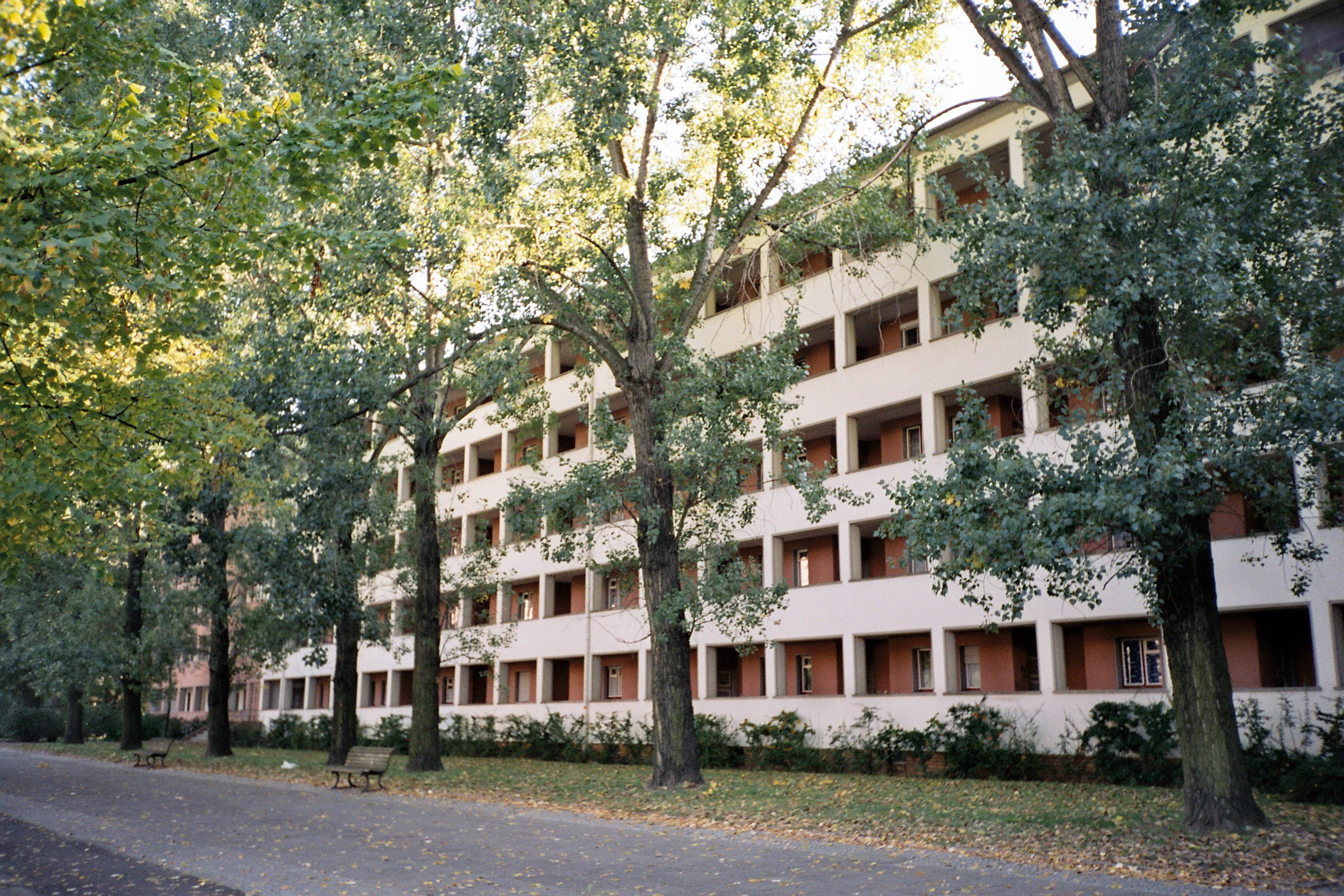 Description: The Laubenganghäuser are one of the oldest buildings on Karl-Marx-Allee in Berlin. They were designed by architect Ludmilla Herzenstein in the Bauhaus tradition and constructed between 1949-1950. Source: self-made. I release it into the public domain. Gryffindor 16:23, 10 April 2006 (UTC)